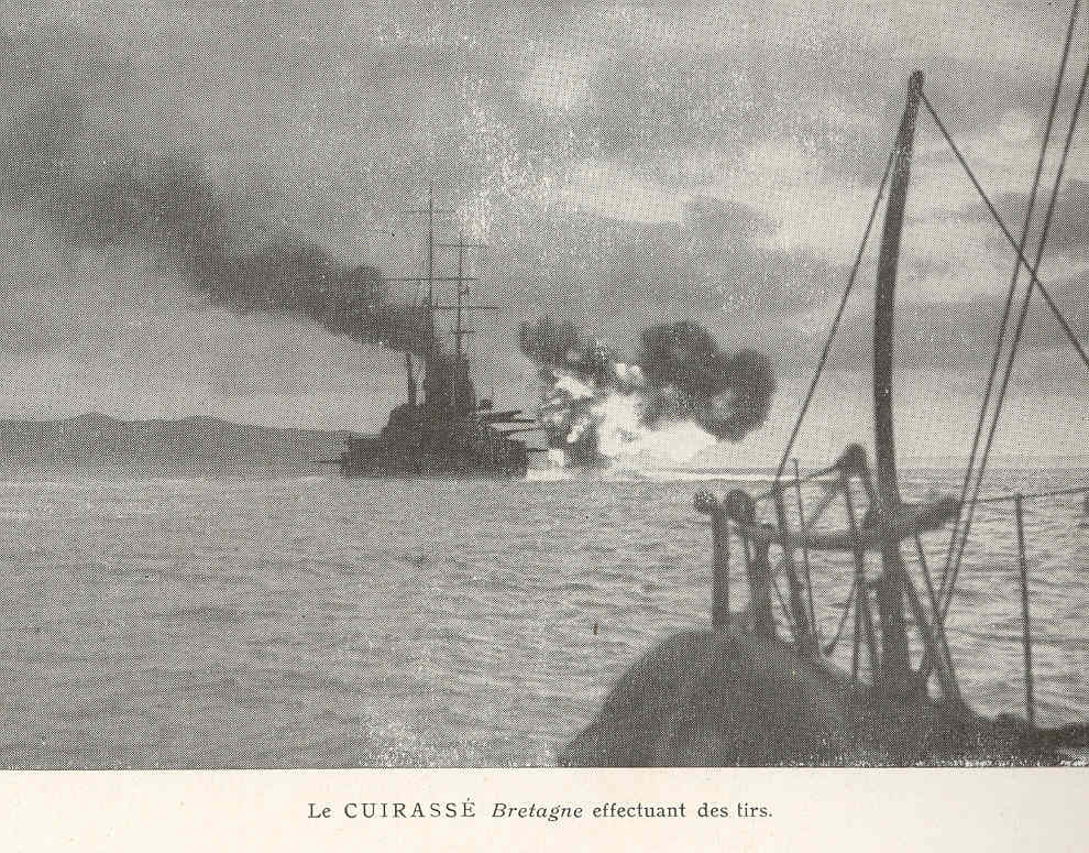 Subject: Battleships, Bretagne (Battleship), France. Marine--Maneuvers Tag: Vessels